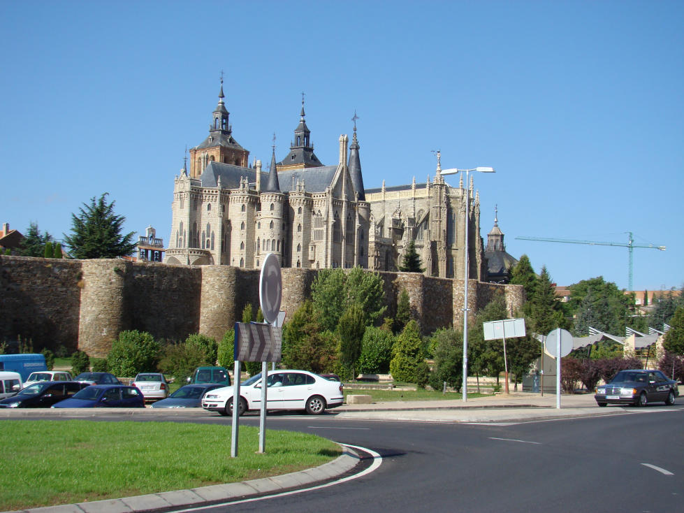 Astorga, walls, Cathedral and Gaudí Palace